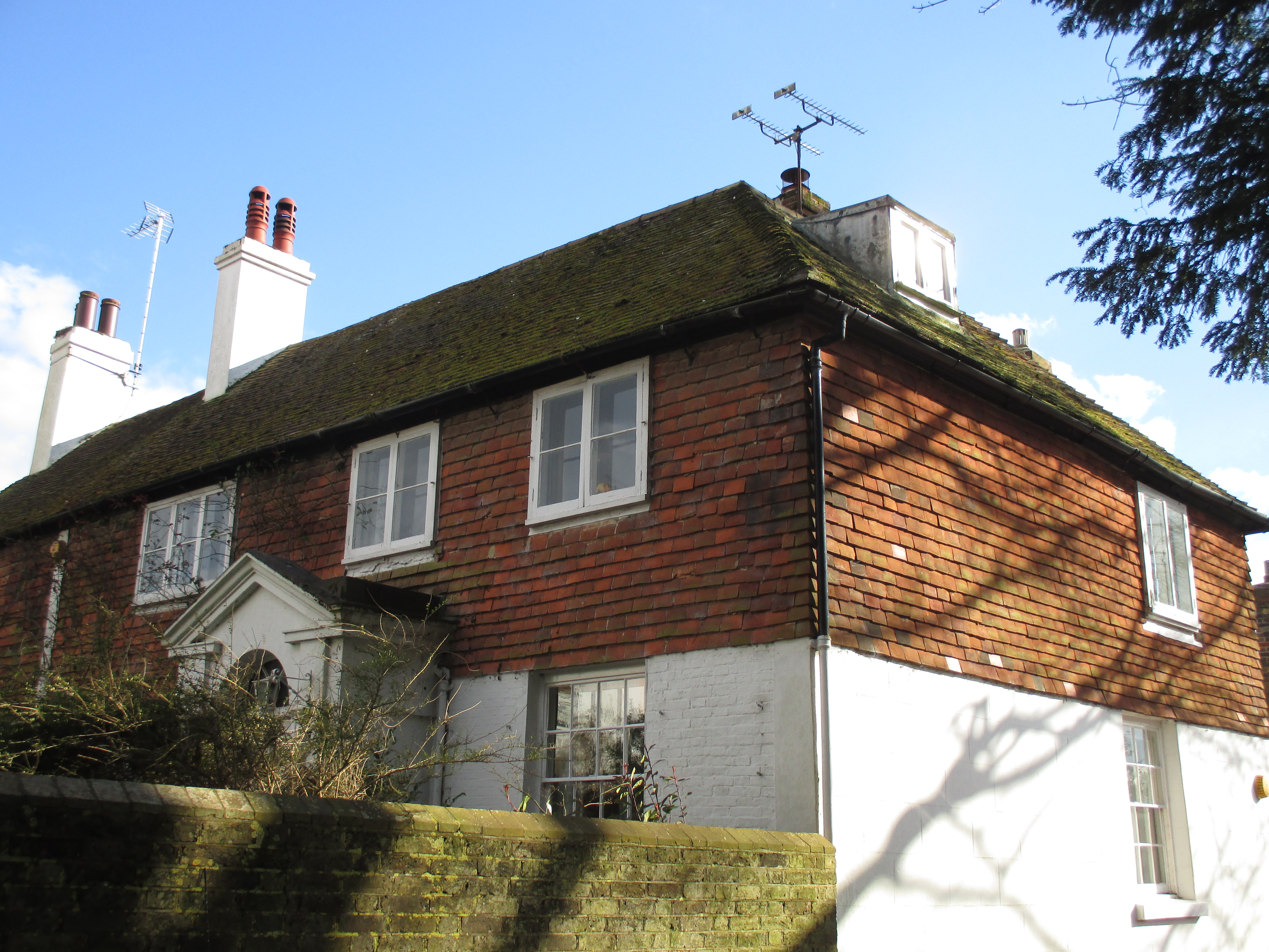 Treeps House, High Street, Hurstpierpoint, West Sussex, seen from the north-west.